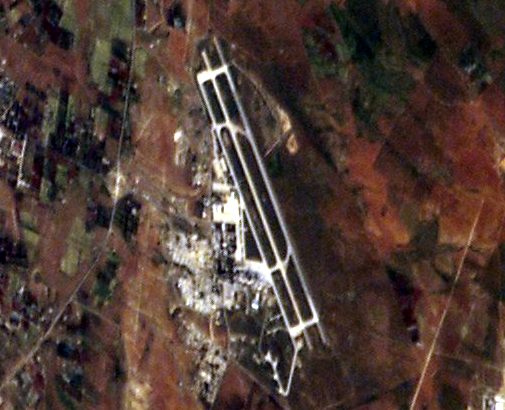 Benina International Airport "Image courtesy of the Image Analysis Laboratory, NASA Johnson Space Center."